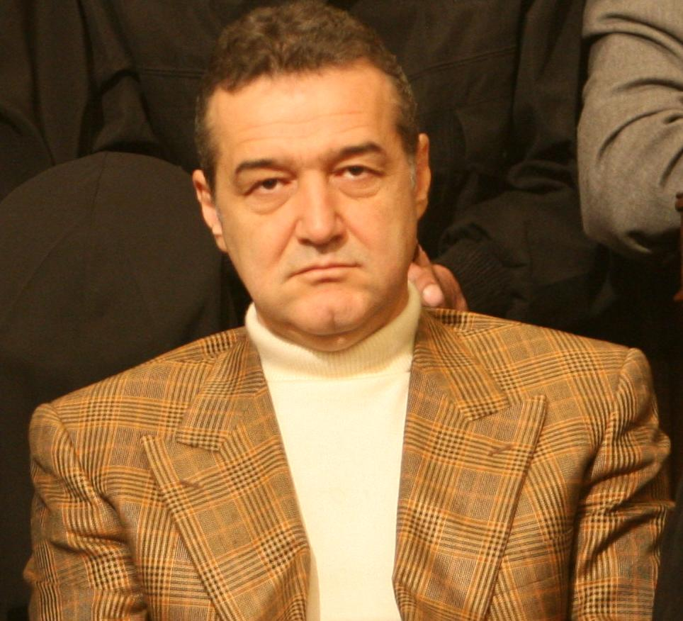 George Becali, president of PNG-CD and owner of the Liga I soccer club Steaua Bucharest, in Iasi.